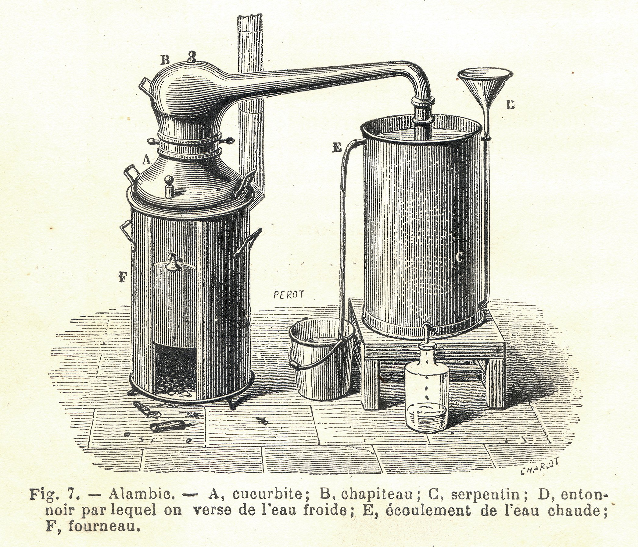 Amoniac absoptionPicture scanned in : Leçons élémentaires de chimie (B.Bussard, H.Dubois). 1906, page 12.